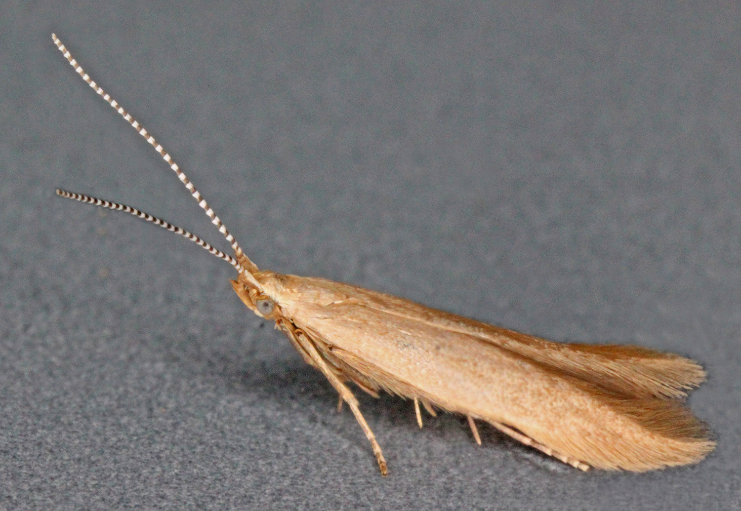 Coleophora gryphipennella, Morfa Bychan, North Wales, May 2010